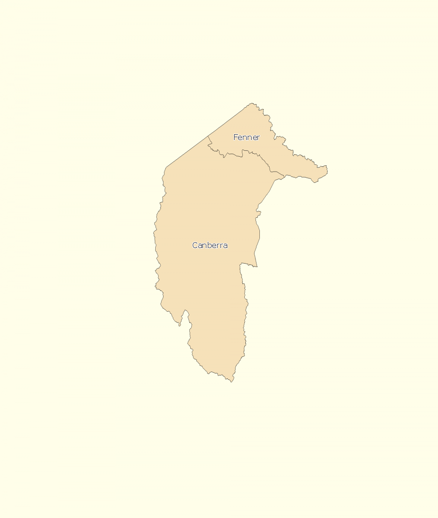 Incorporates or developed using Administrative Boundaries ©PSMA Australia Limited licensed by the Commonwealth of Australia under Creative Commons Attribution 4.0 International licence (CC BY 4.0). Derived from State and Territory Boundaries from the Australian Bureau of Statistics under Creative Commons Attribution 2.5 Australia license (CC BY 2.5 AU)